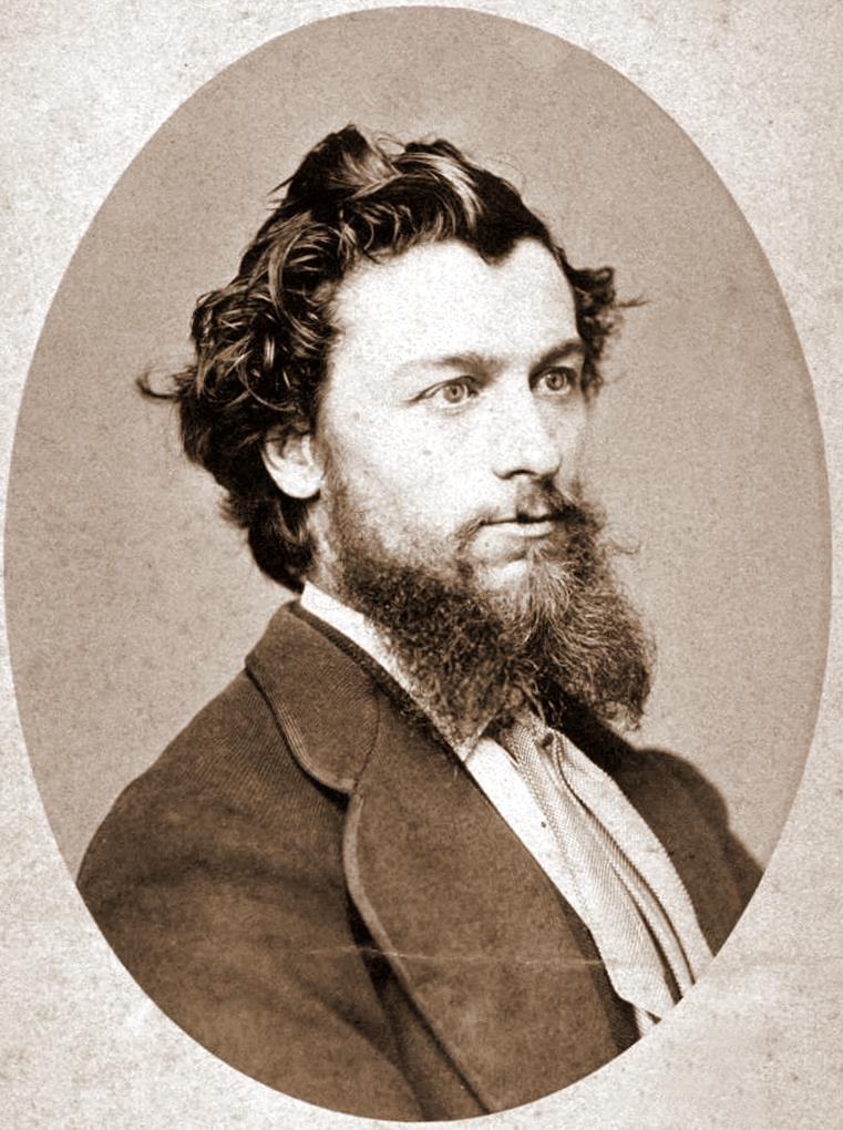 Portrait photograph of William Keith (1838–1911).